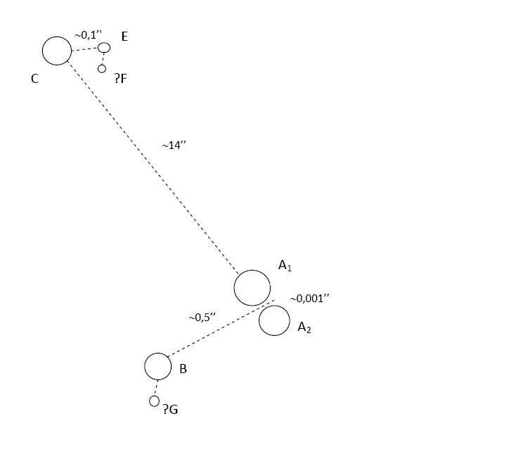 Scheme of the members of the multiple star Graffias. My own work.